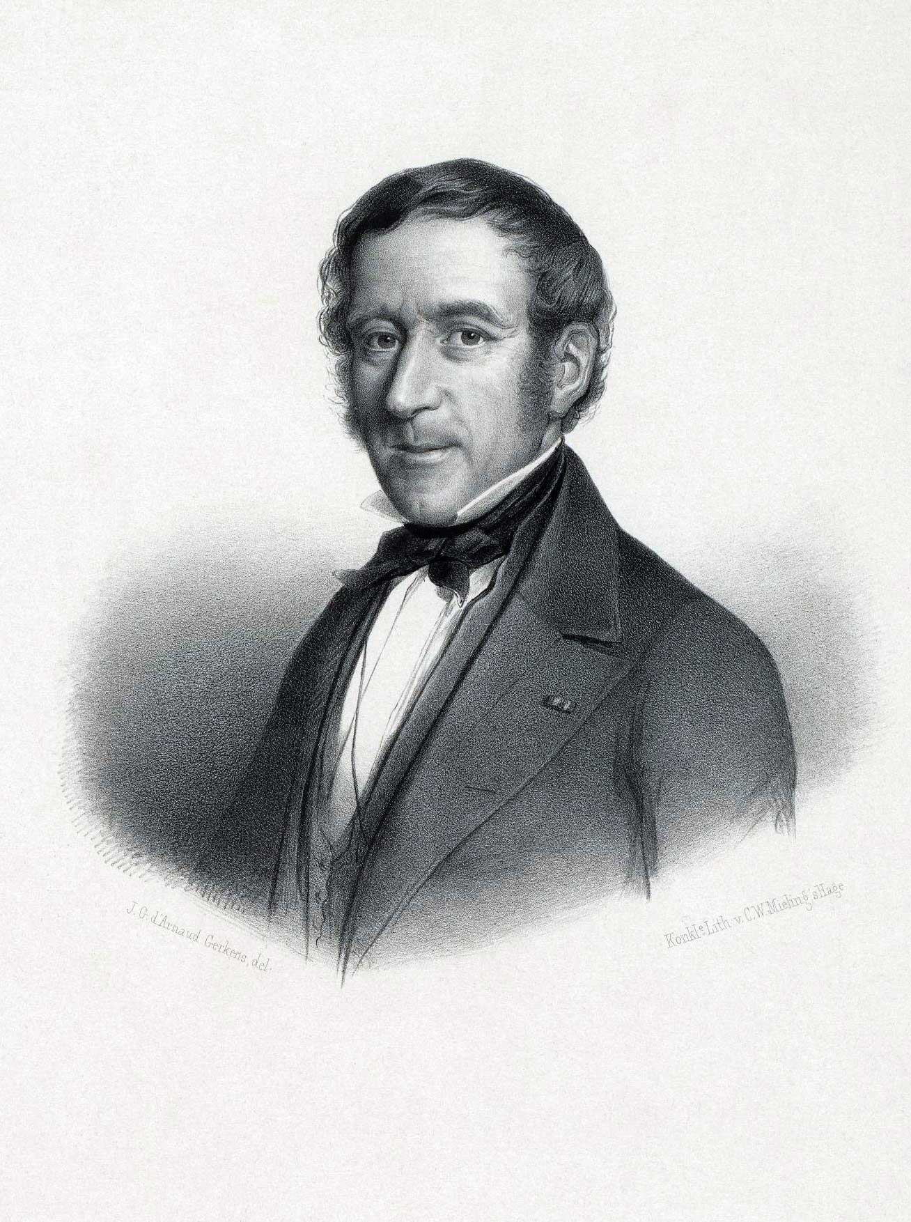 John Bake also: Johann Bake, Jan Bake (1787-1864) Dutch Classical scholar and Philologist